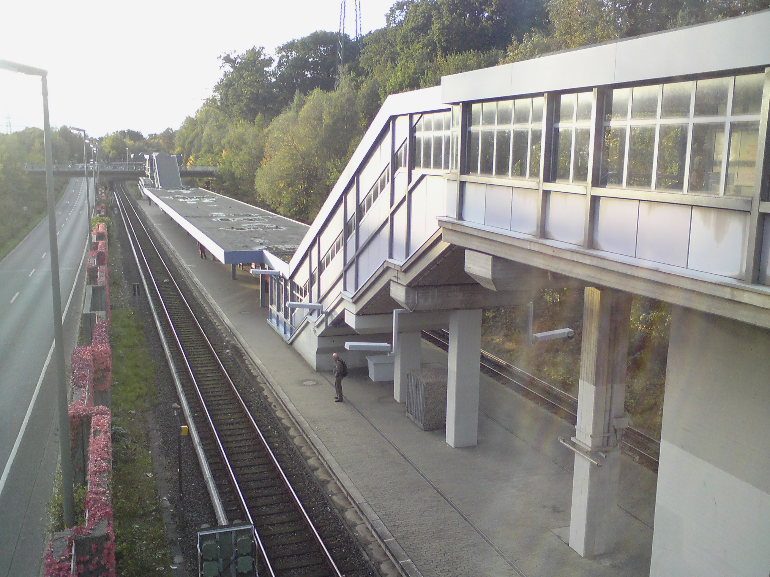 S-Bahn station in Hamburg-Rissen, Germany, and 2 of 4 lanes of Bundesstraße 431